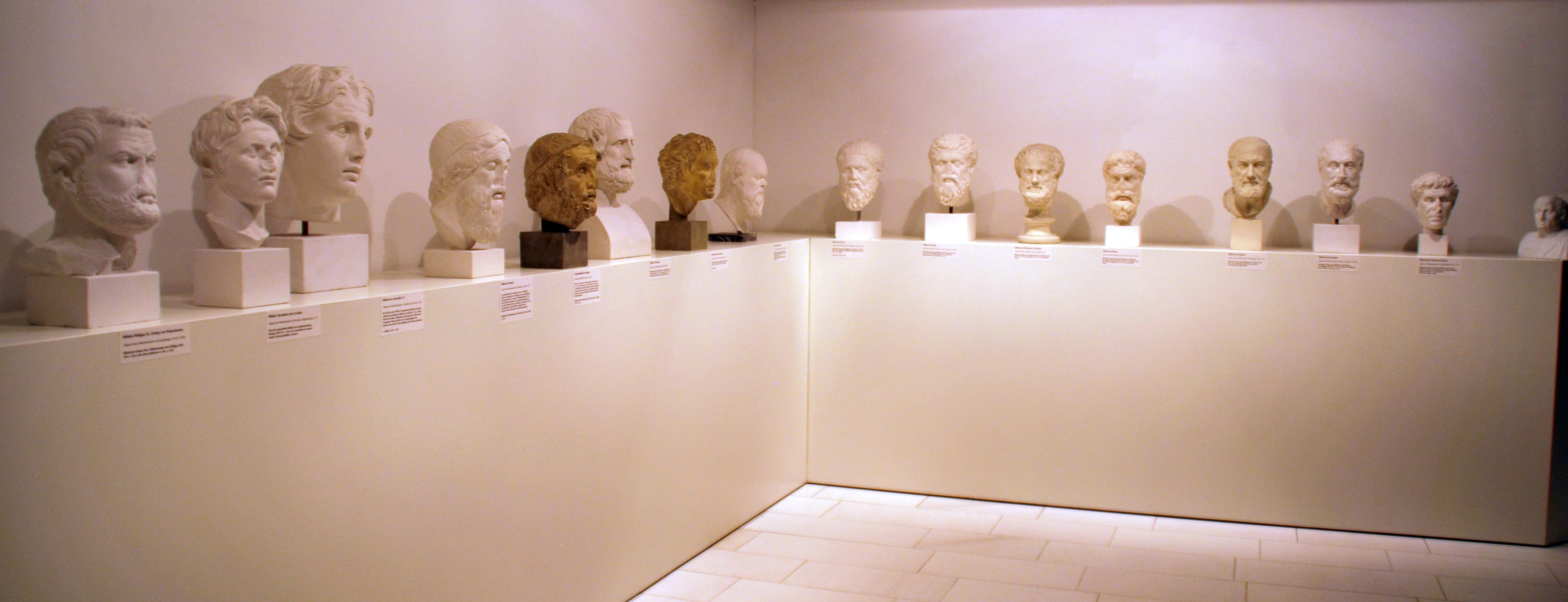 Exhebition views of the Antikensammlung Kiel.